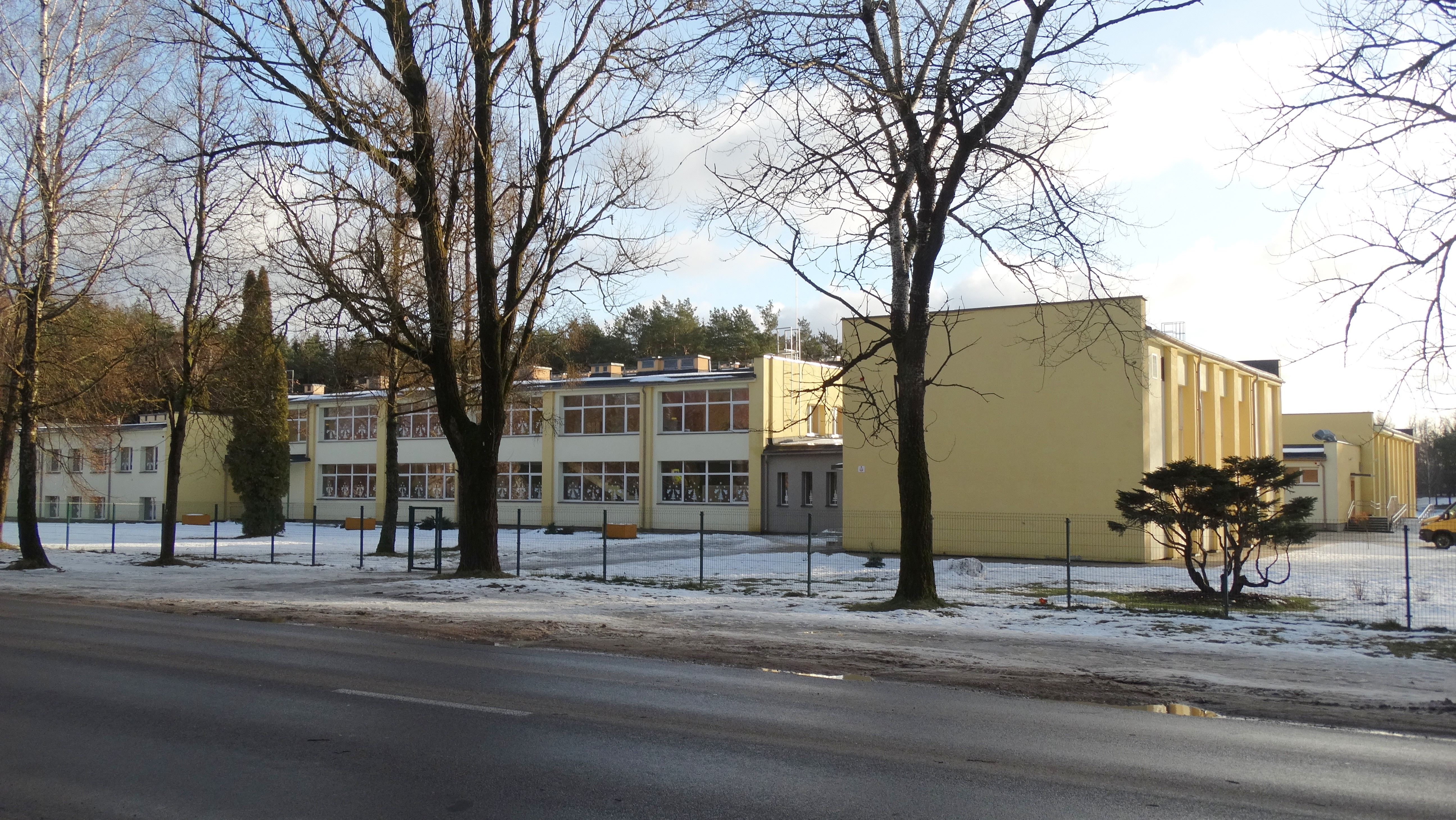 Gymnasium, Avižieniai, Vilnius district, Lithuania